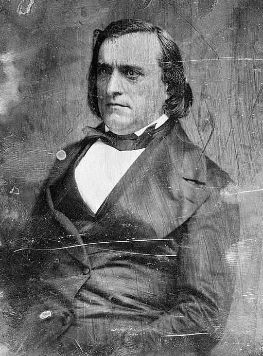 Louisiana politician Pierre Soulé.